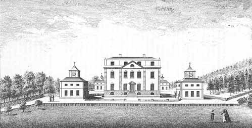 Tehidy House, Illogan, near Camborne, Cornwall, as built 1734-c.1740 and demolished for re-building 1861